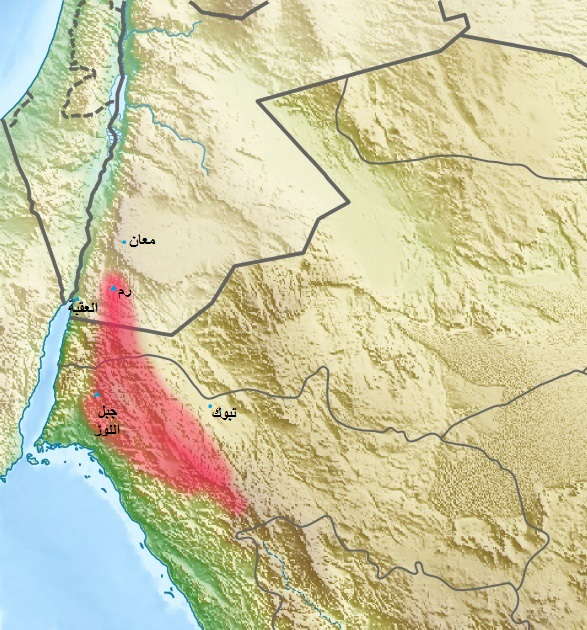 Location of Hisma desert using information from [see below]